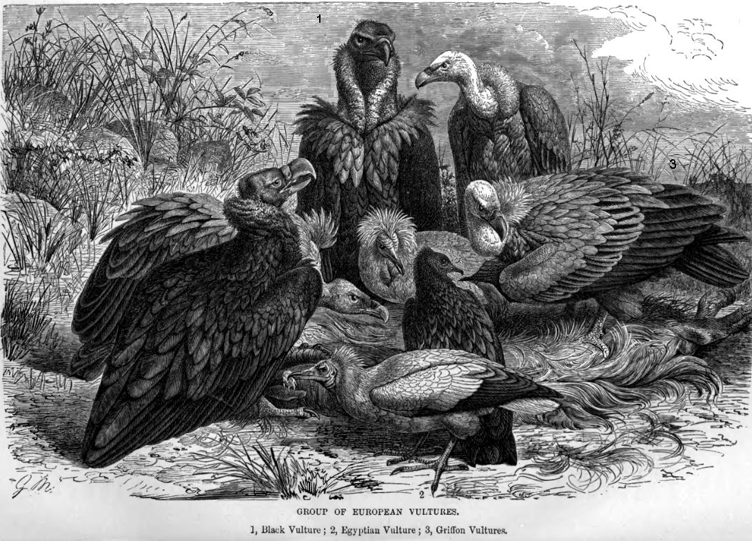 Vultures Gyps fulvus Aegypius monachus Neophron percnopterus